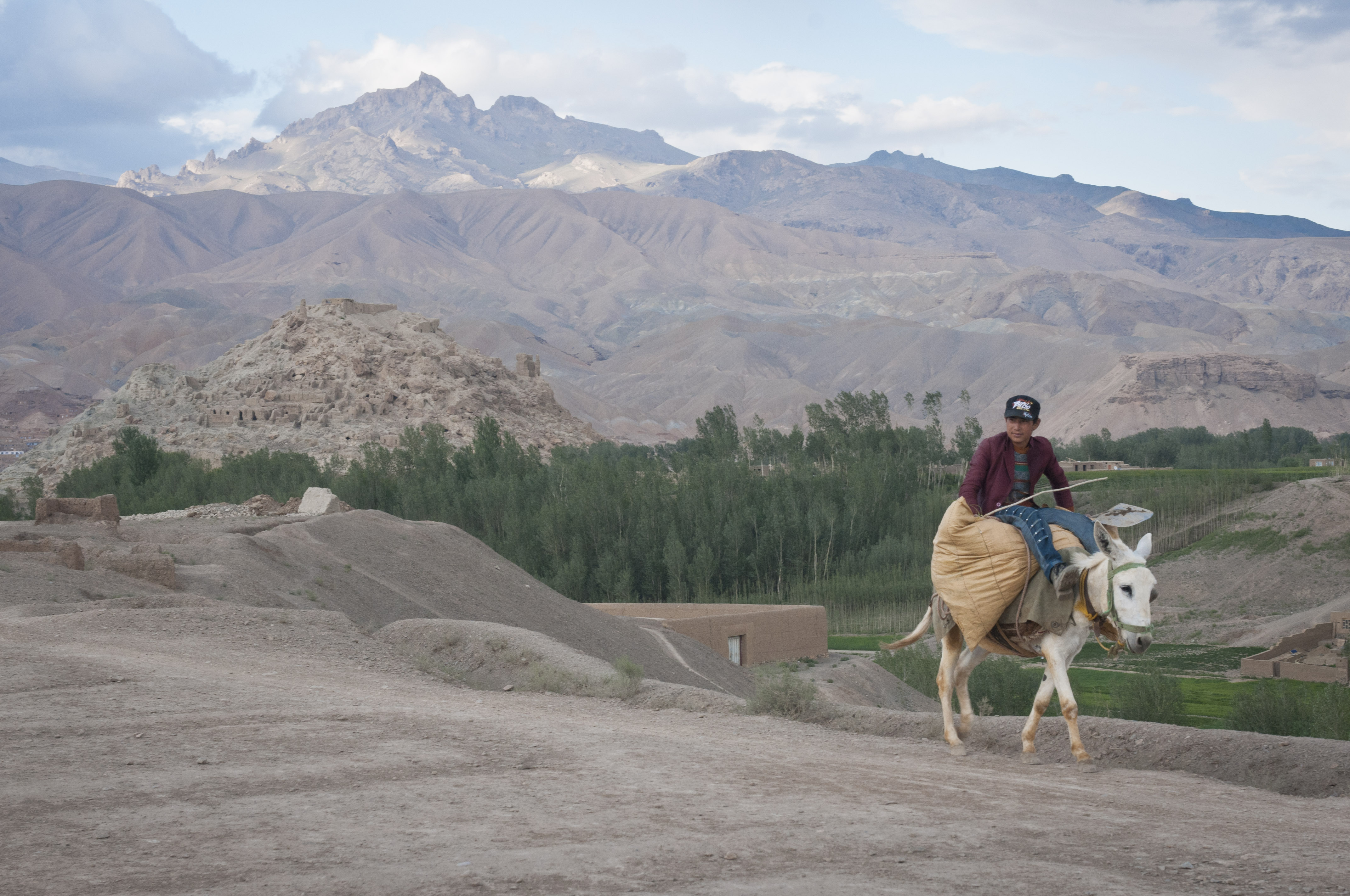 A young man travels in style near Forward Operating Base Bamyan, June 24, 2012. The collection of ancient fortifications on the hill behind them is known as Shahr-e Gholghola, or the "City of Screams." In the 13th century the inhabitants of Bamyan made their last stand against Ghenghis Khan there, and lost. (Photo ID: 614494)